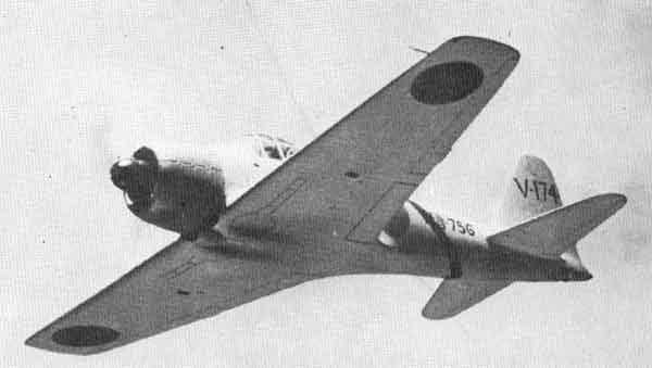 A Mitsubishi Zero A6M3 Type 32 from the Tainan Kokutai, bearing number V-174.